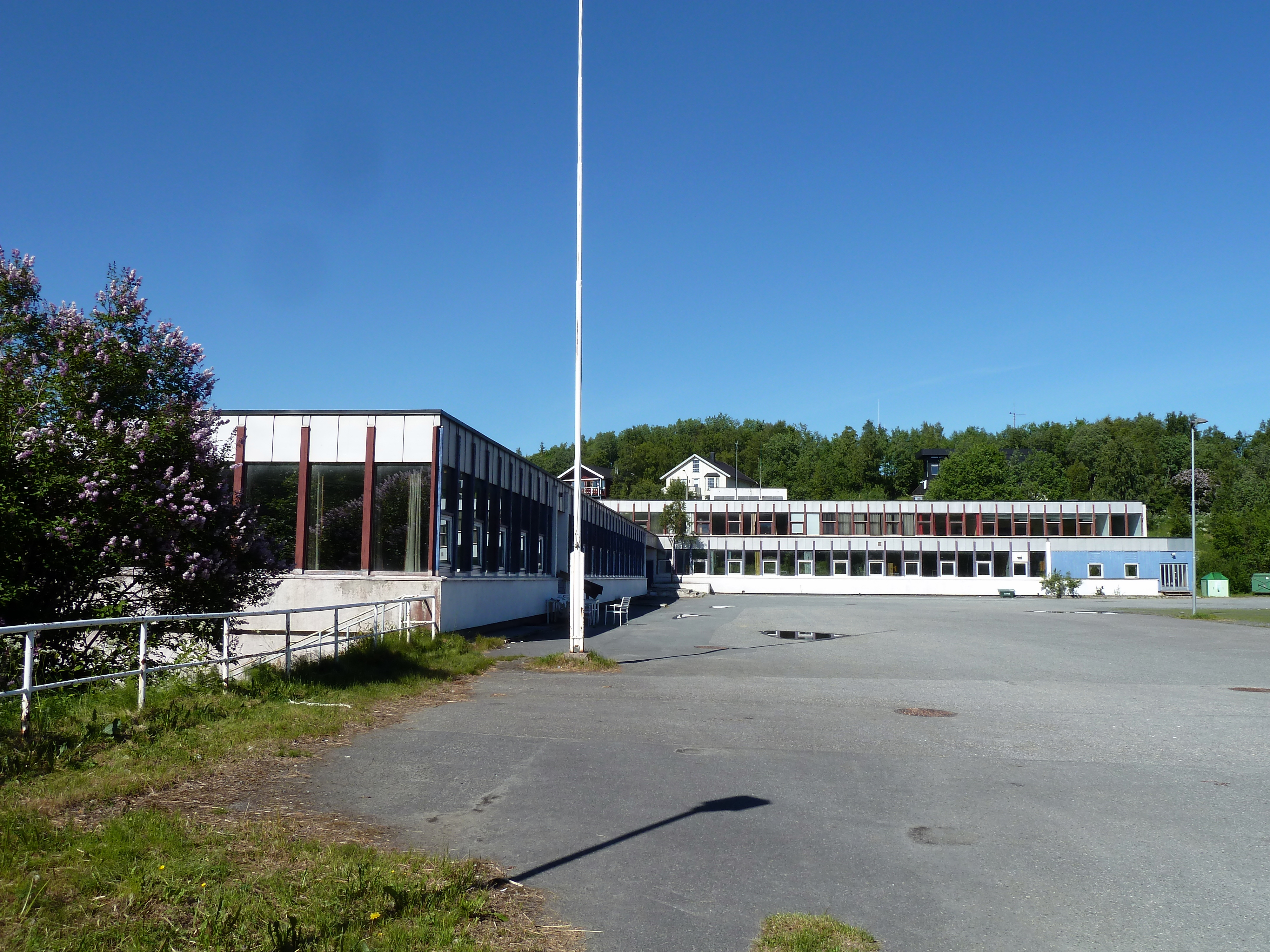 Framnes school in Narvik.